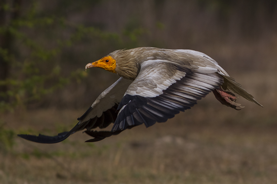 The species Egyptian Vulture (N.p.Ginginianus) had been photographed at Keoladeo Ghana National Park, Bharatpur, Rajasthan, India on 18th February 2013 during the bird photography tour of GoingWild.